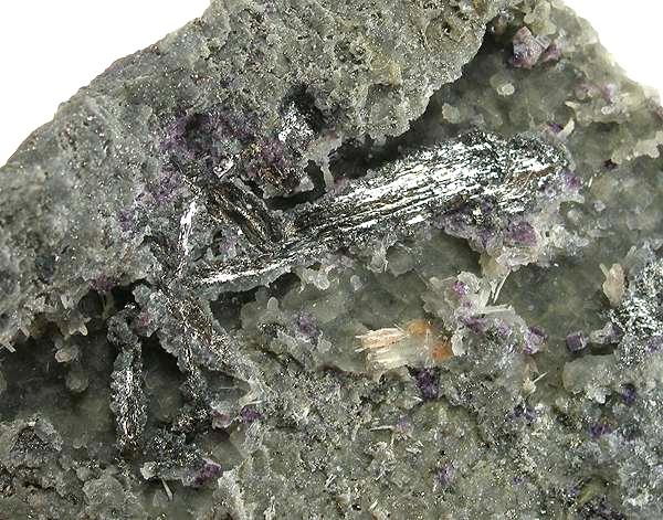 Sylvanite Locality: Cripple Creek District, Teller County, Colorado, USA (Locality at ) Size: 5.3 x 4.1 x 2.6 cm. This well-trimmed matrix features a 2-cm-long crystal of sylvanite. Sylvanite is a very rare silver gold telluride. Large crystals are only known from a few locales, of which the most historic are in the now defunct old mining districts of Romania and in Colorado. Seldom do you see such large crystals, in particular from Colorado. This crystal measures 20 mm in size, and is superbly displayed on a well-trimmed matrix. Minor microscopic purple fluorite is in association. This is a major specimen for the species and locale, far more impactful and important than its physical size would indicate otherwise. From an old collection.